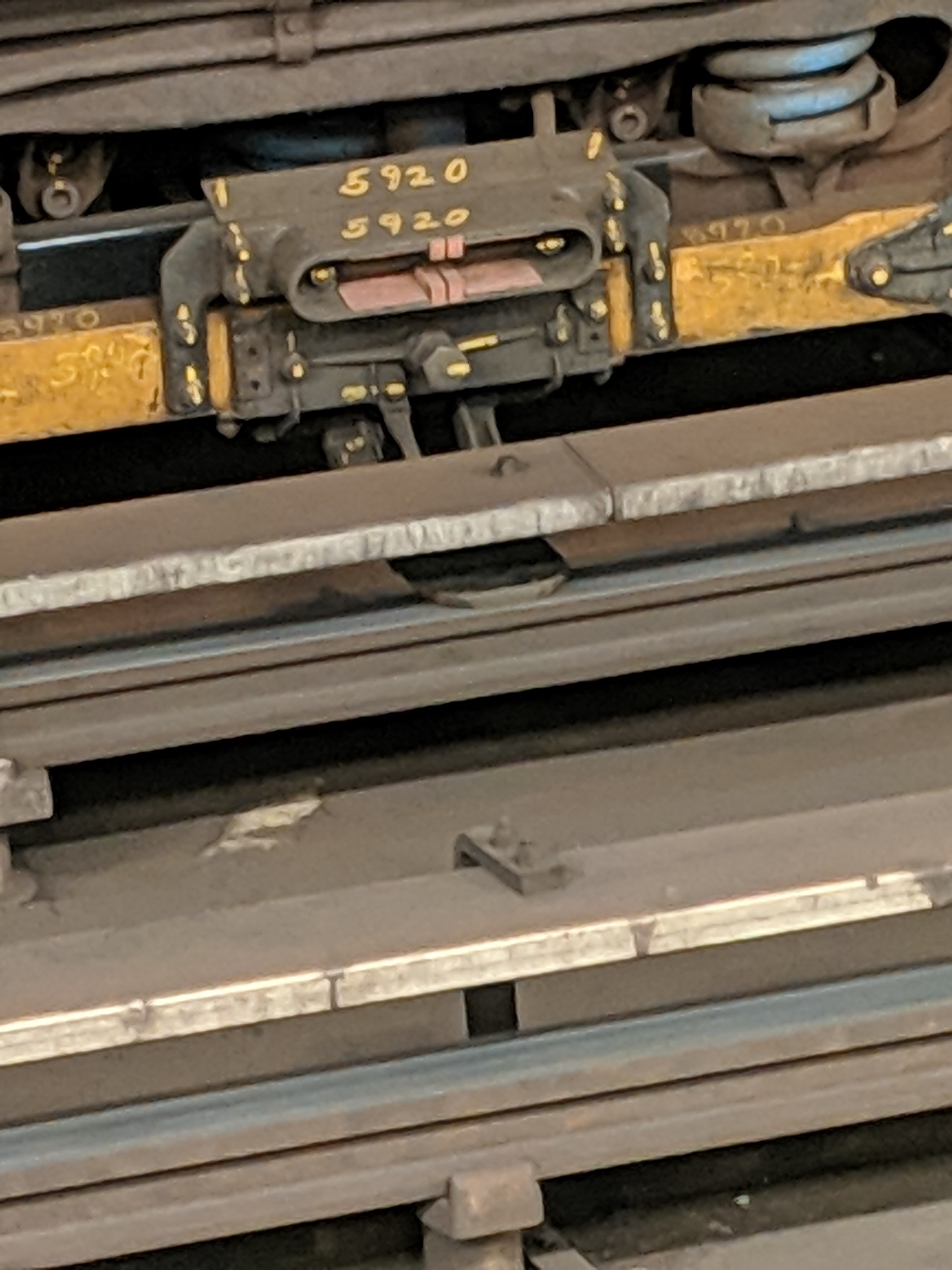 A zoomed picture of an NYC Subway train making contact with the Third Rail. The rail in the foreground is the third rail for trains in the opposite direction.